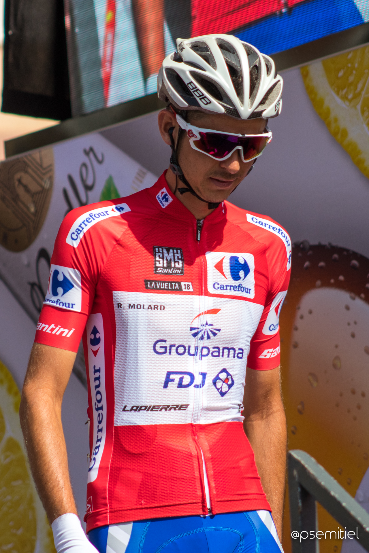 2018 Vuelta a España, Stage 7